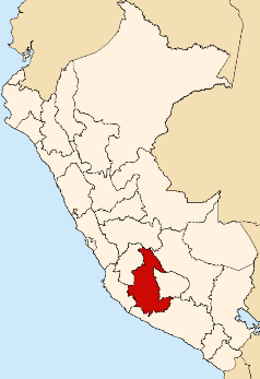 Made by User:StarbucksFreak on Sept. 30 2005